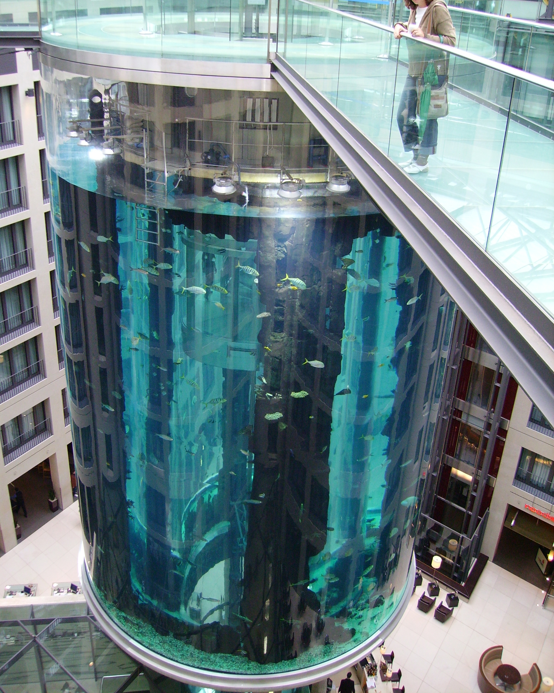 AquaDom